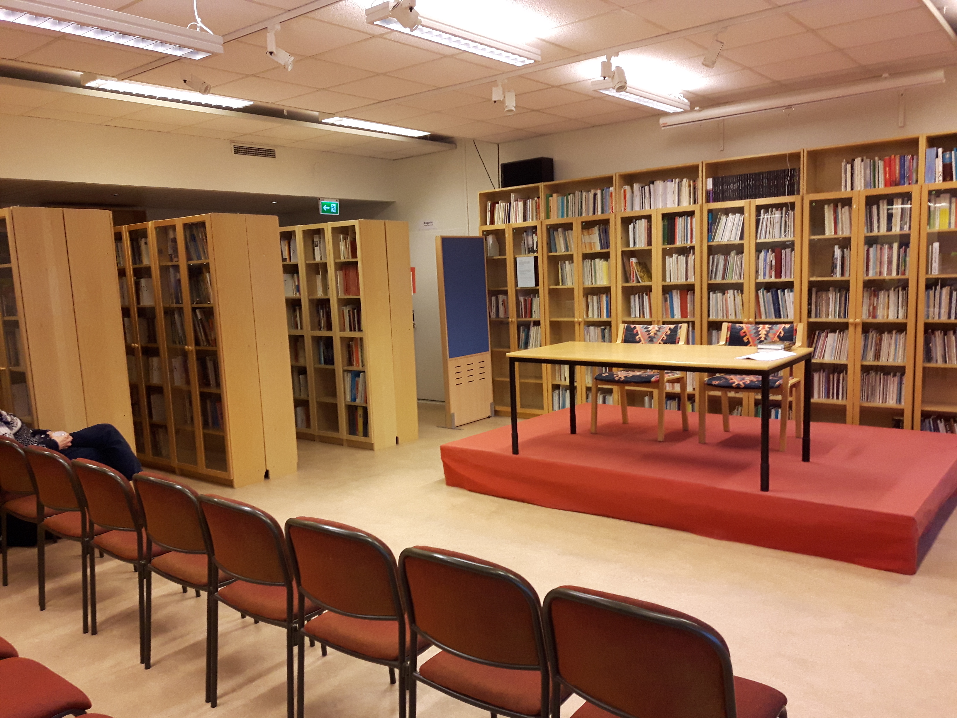 Kurdish Library, Stockholm, in October 2017.